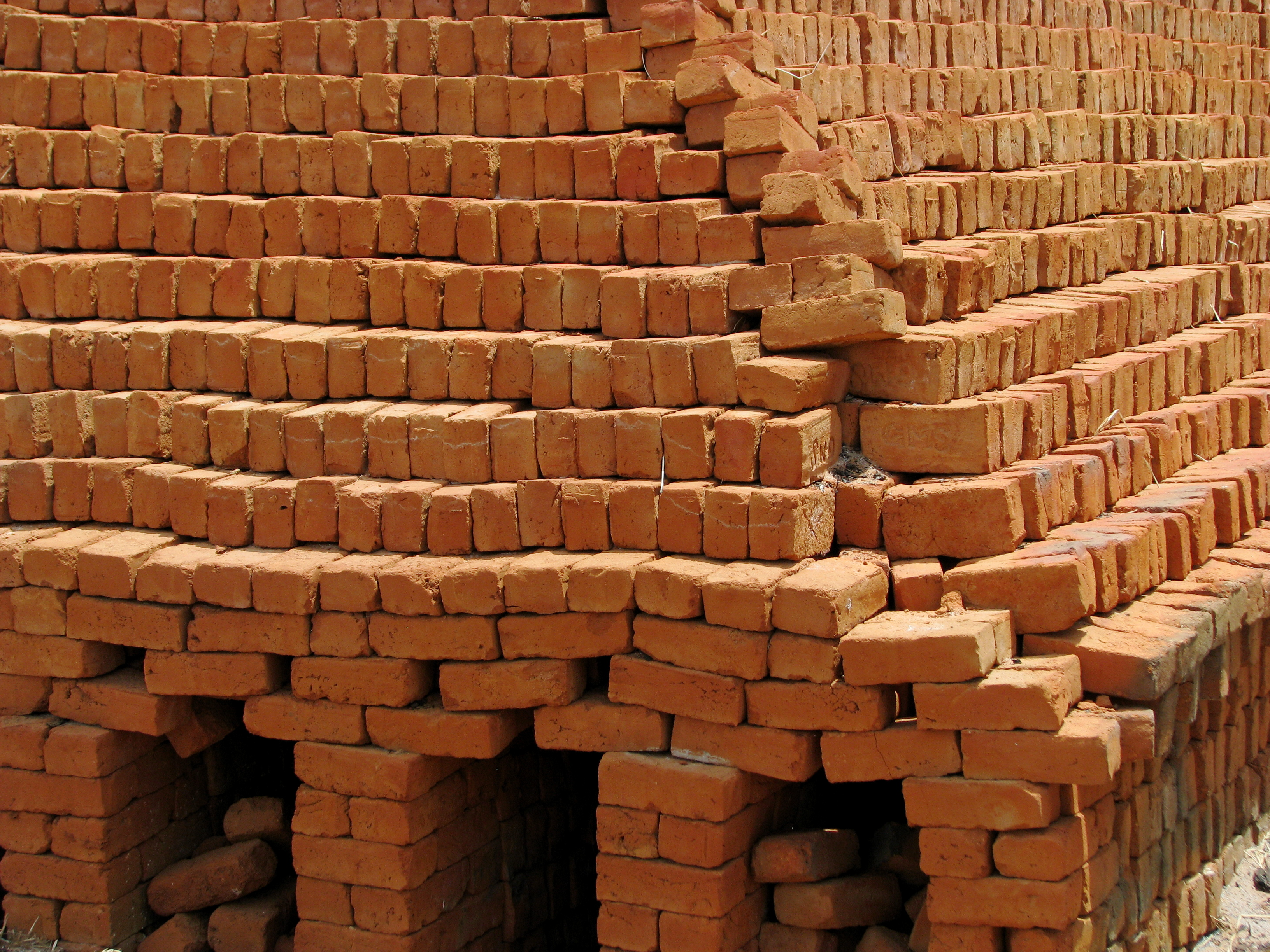 Brick making is a common sight in rural Tamil Nadu around Chennai as the red clay is readily available and the demand for building materials ever growing. Clay is dug up by hand, formed into bricks and stacked row by row. Sun-dried, the bricks are made into a kiln which is then packed with charcoal or wood, lit and covered to fire-bake the bricks. Structures like these dot the countryside as the bricks get slowly sold and removed. It is generally a tough livelihood done by the very poor at the margins and doesn't provide them a very good life. It leaves the land pockmarked and unsuitable for later agriculture. But with the insatiable demand of the growing cities for bricks, sand and gravel, the mining and brick-making activities are not going to diminish any time soon.